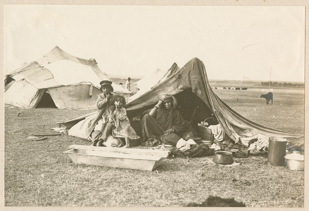 Title: [Tscherkessen Gypsies] Alternative Title: [Circassian Gypsies] Creator: Unknown Date: Spring 1918 Part Of: Place: Ukraine Physical Description: 1 photographic print: gelatin silver; 9 x 13 cm. on 34 x 44 cm. mount File: ag1982_0048x_40b_sm_opt.jpg Rights: Please cite DeGolyer Library, Southern Methodist University when using this file. A high-resolution version of this file may be obtained for a fee. For details see the web page. For other information, . Both the full portfolio and the 263 individual photographs, scanned at a higher resolution, are available. View the full portfolio: View the individual photographs: For more information and to view the image in high resolution, View the